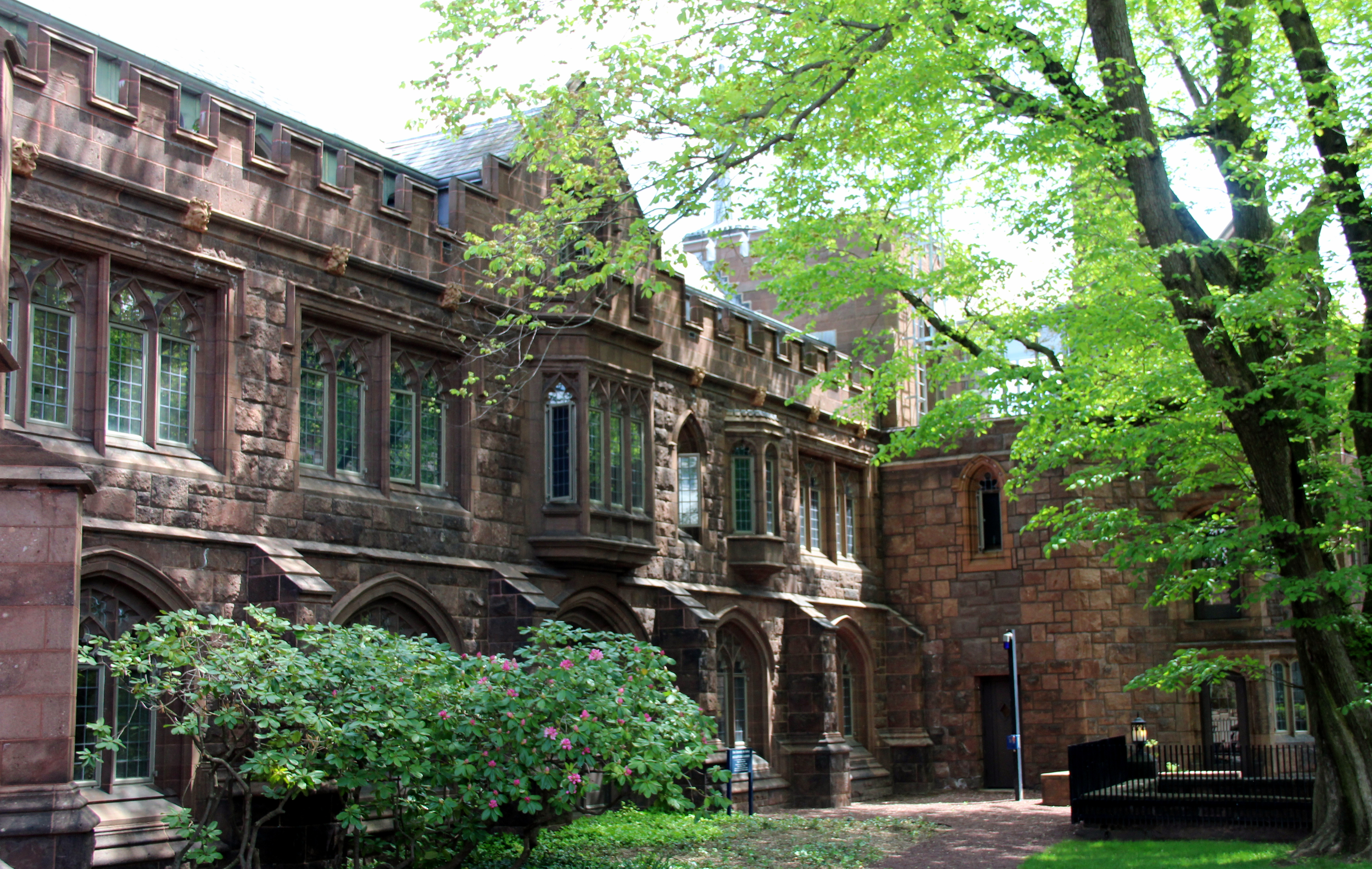 Weir Hall, photographed from the Yale University Art Gallery courtyard